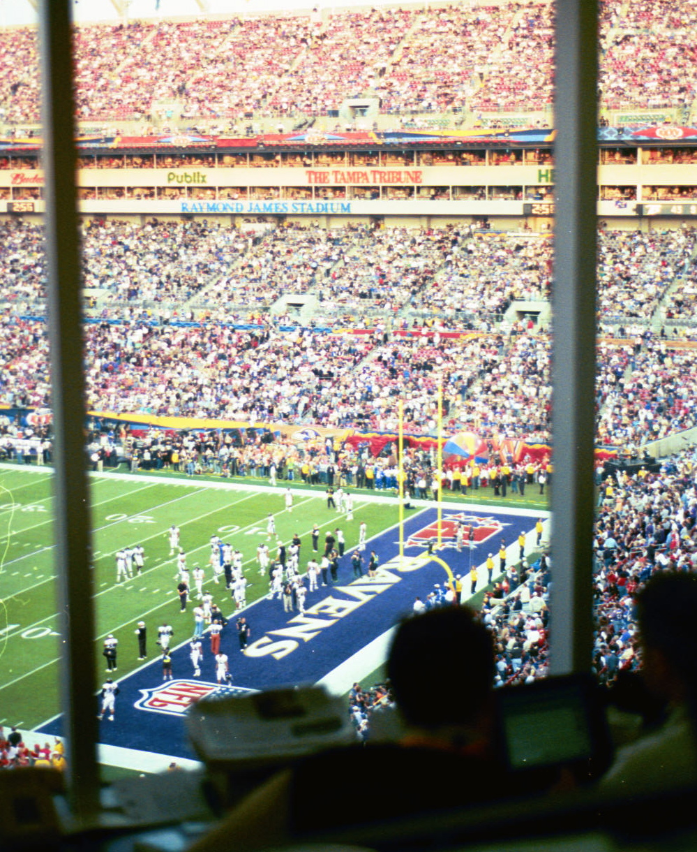 The view from the pressbox of the endzone during Super Bowl XXXV